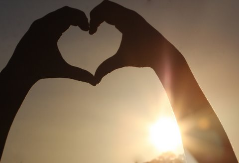 Photography is in my heart